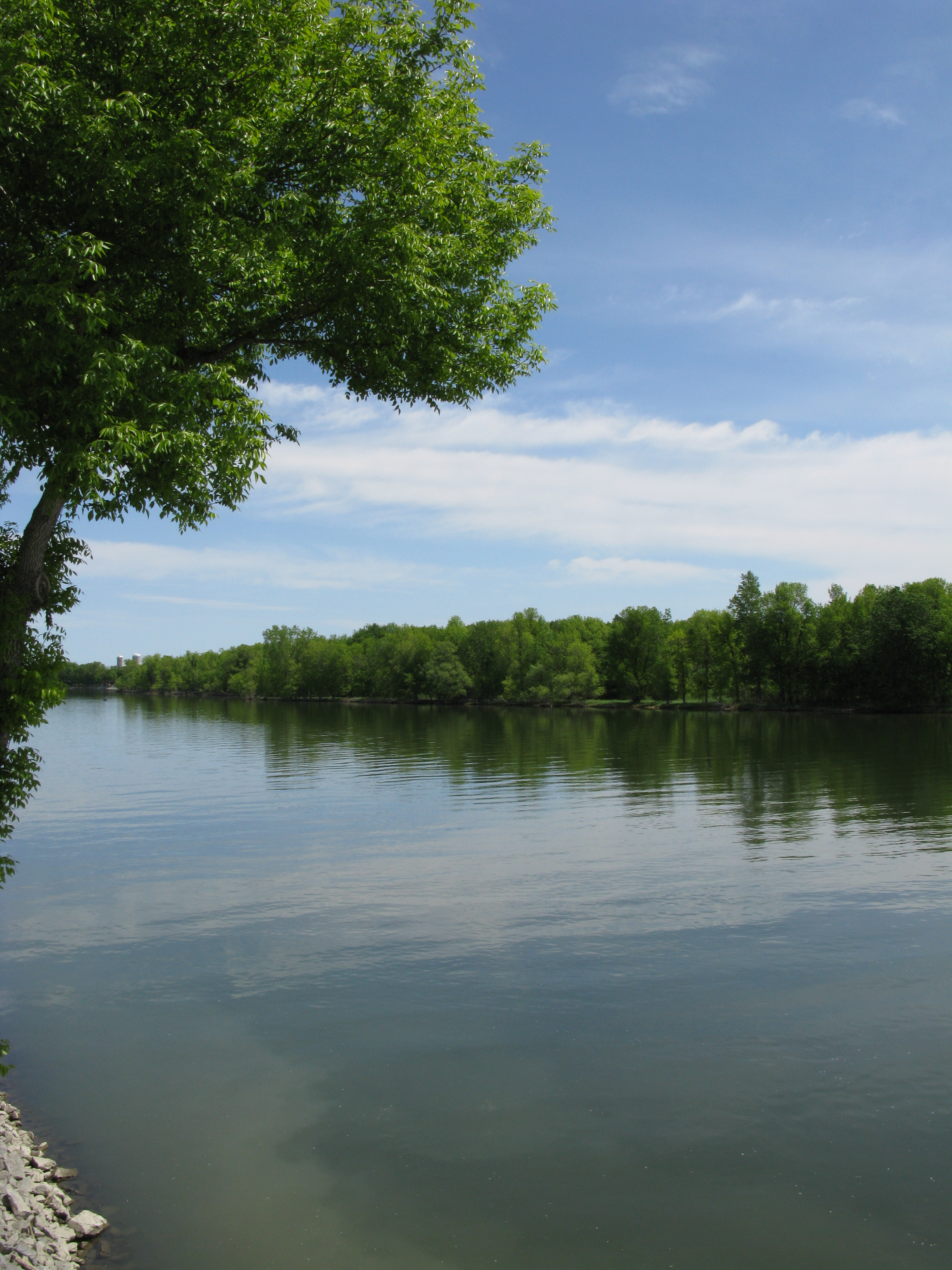 Richelieu River at Saint-Marc-sur-Richelieu, province of Quebec, Canada.